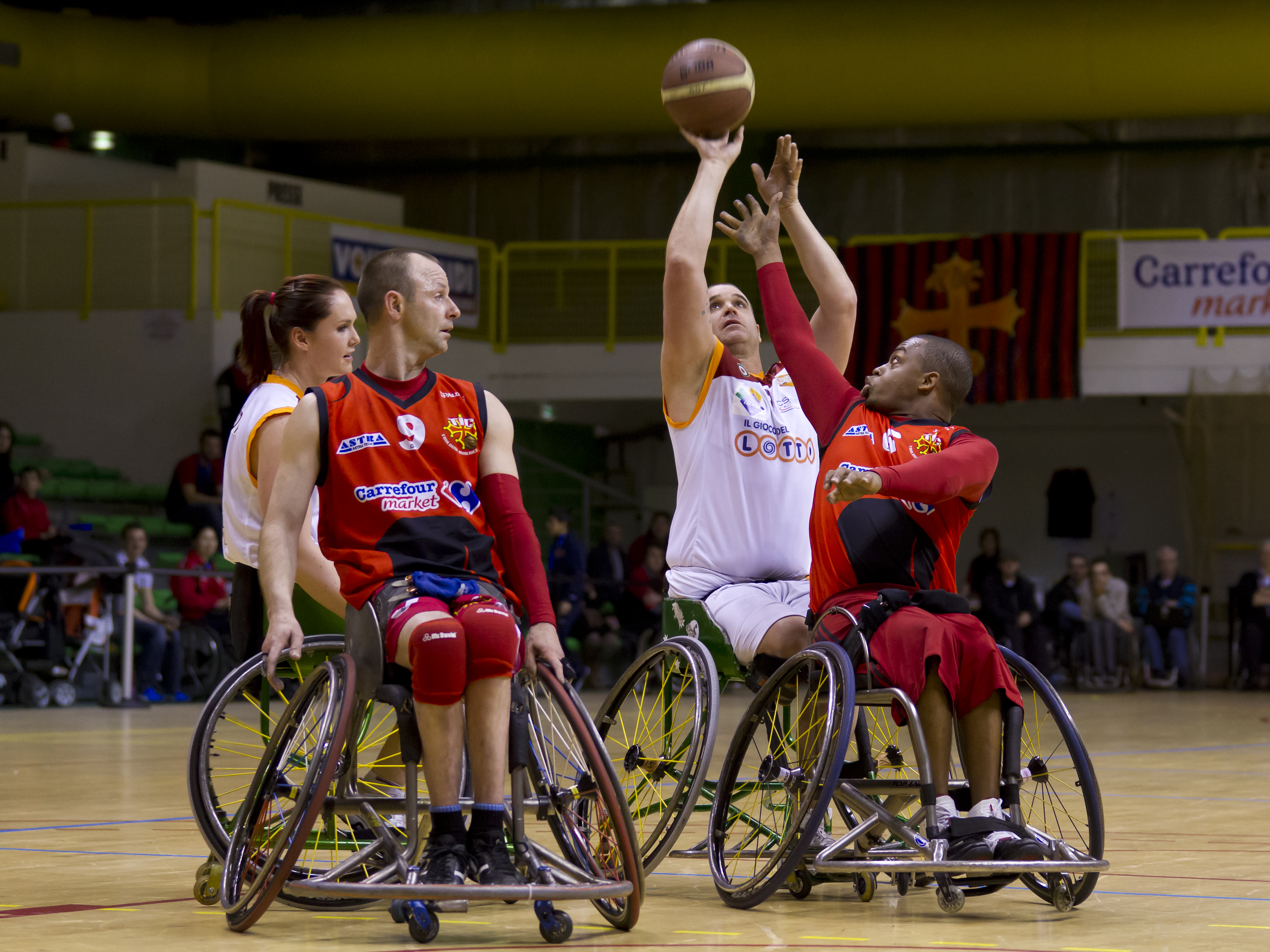 Pictures taken during the first pool tour of the Euroleague of wheelchair basket. The match opposed teams from Rome and Toulouse.